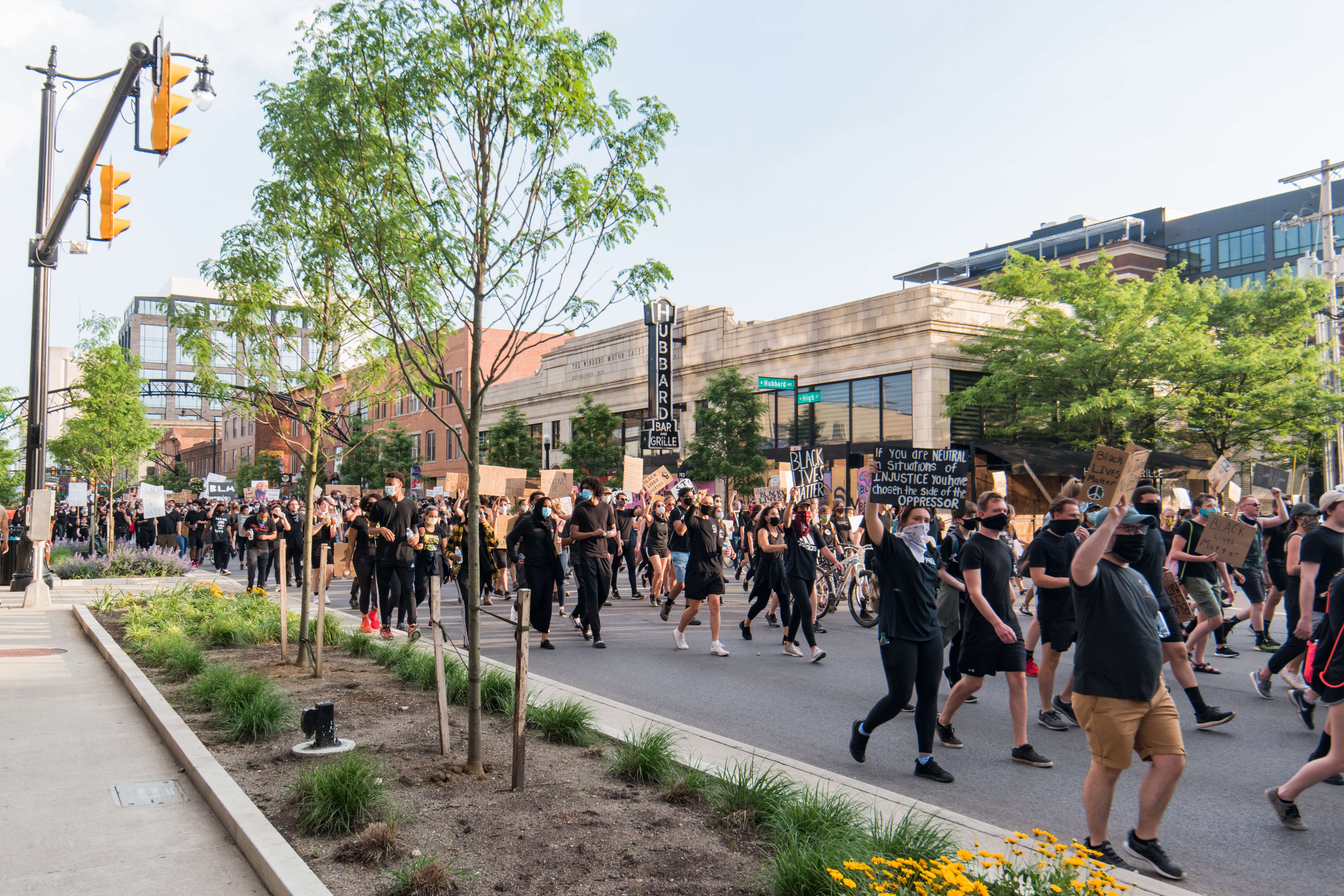 George Floyd protest media, Columbus, Ohio.